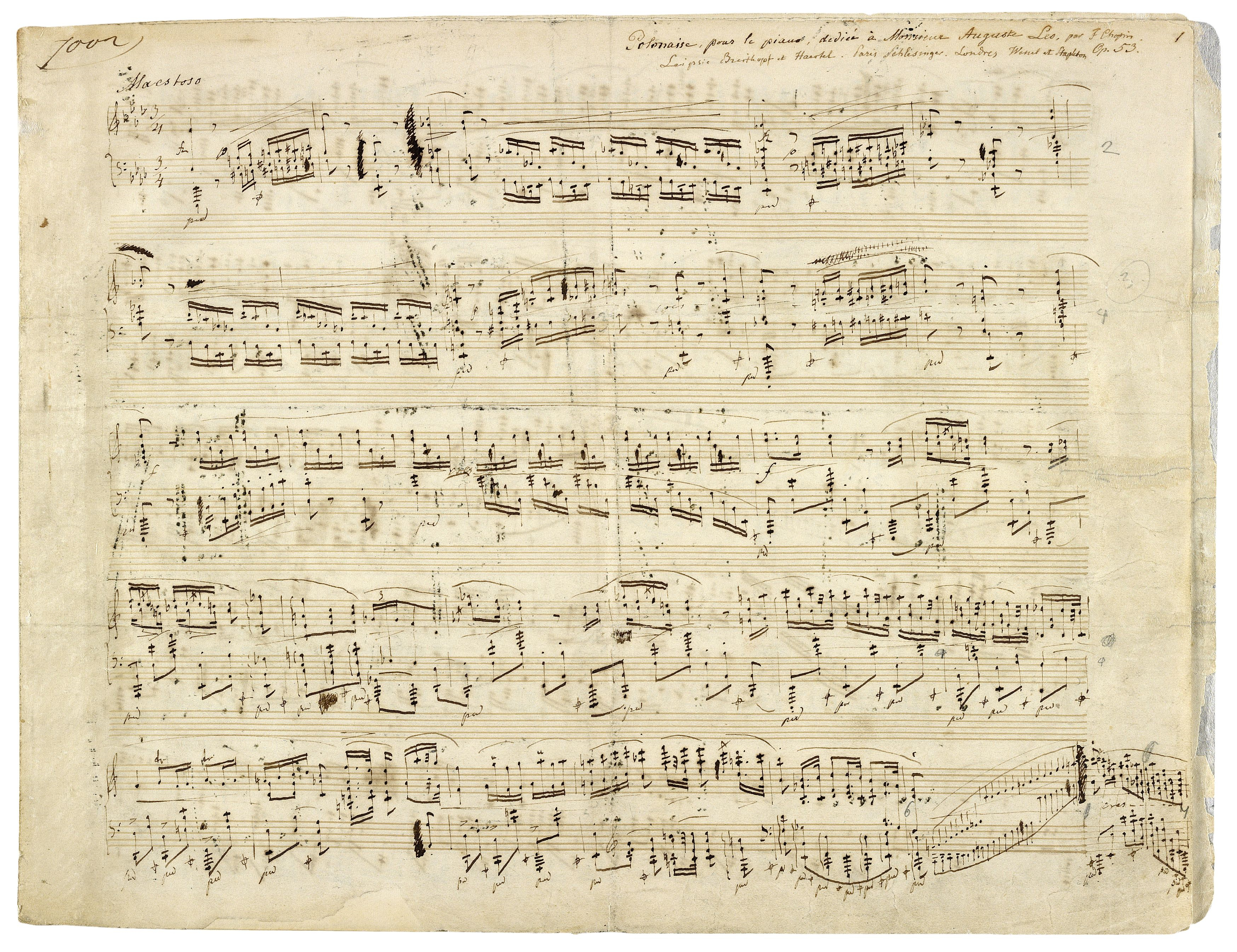 Autographed partiture by the Polish composer Frédéric Chopin of his Polonaise Op. 53 in A flat major for piano, 1842.